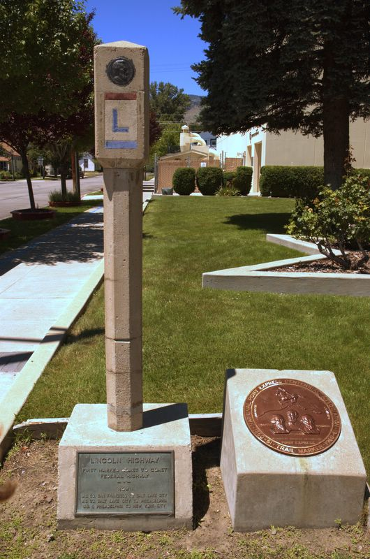 Photo of a Lincoln Highway Marker in Carson City, Nevada. Plaque reads: Lincoln Highway First marked coast to coast Federal highway -.- Now: U.S. 50, San Francisco to Salt Lake City U.S. 30, Salt Lake City to Philadelphia U.S. 1, Philadelphia to New York City